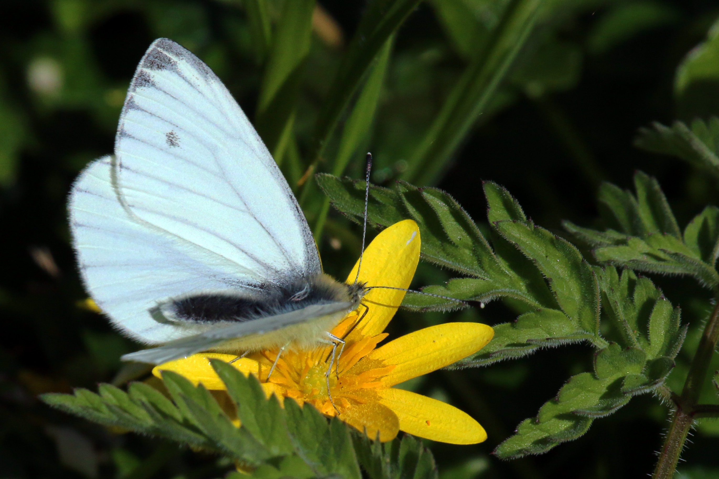 Green-veined white butterfly (Pieris napi), male spring brood, Wytham Woods, Oxfordshire